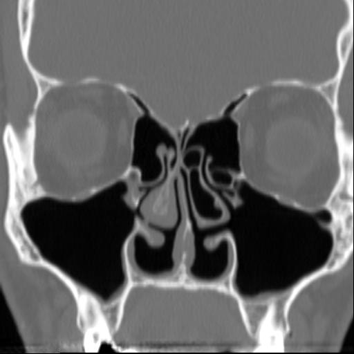 Front cross CT sections of nasal cavities, after a partial (about 80%) and bilateral inferior turbinectomy